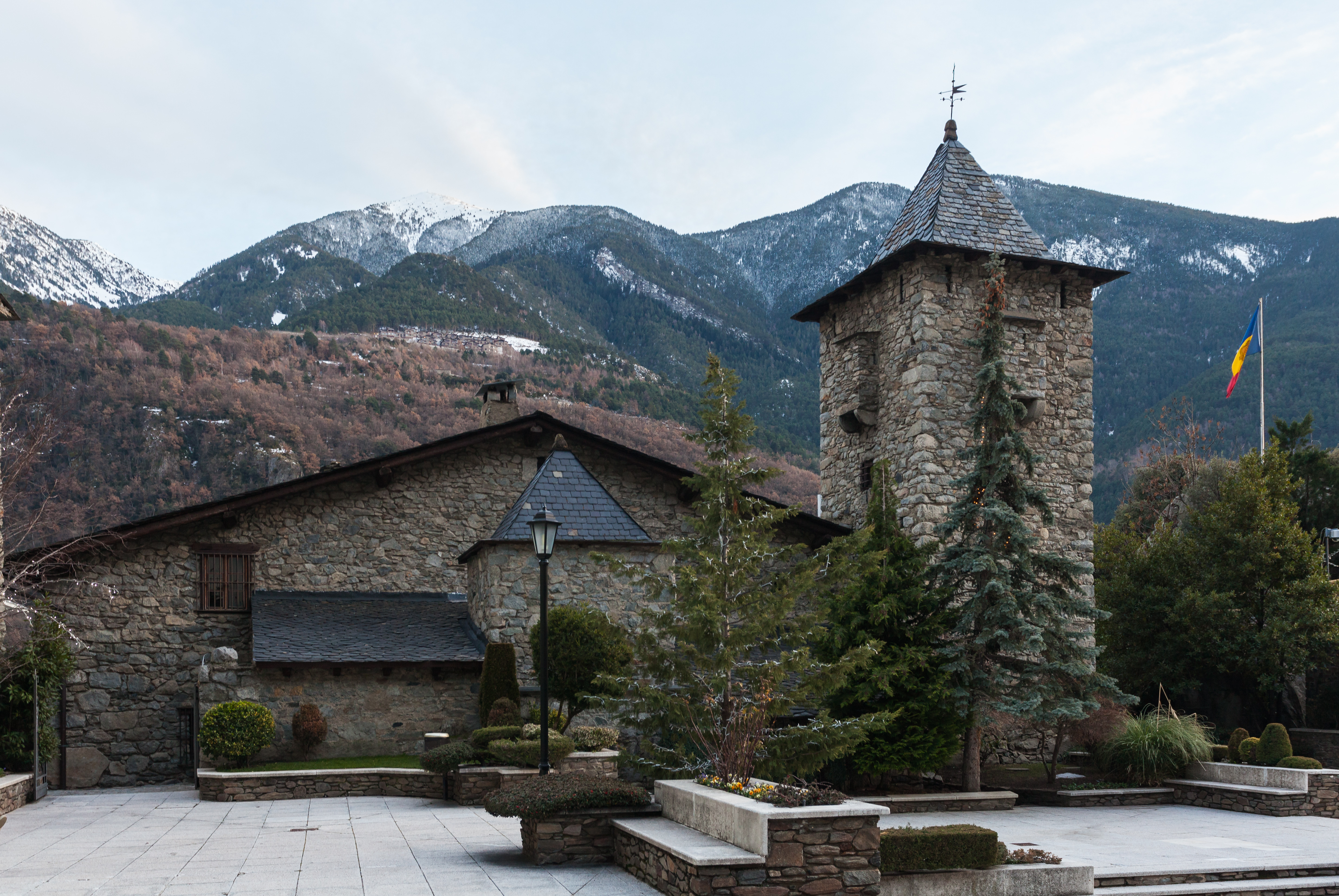 Casa de la Vall, Andorra la Vella, Andorra